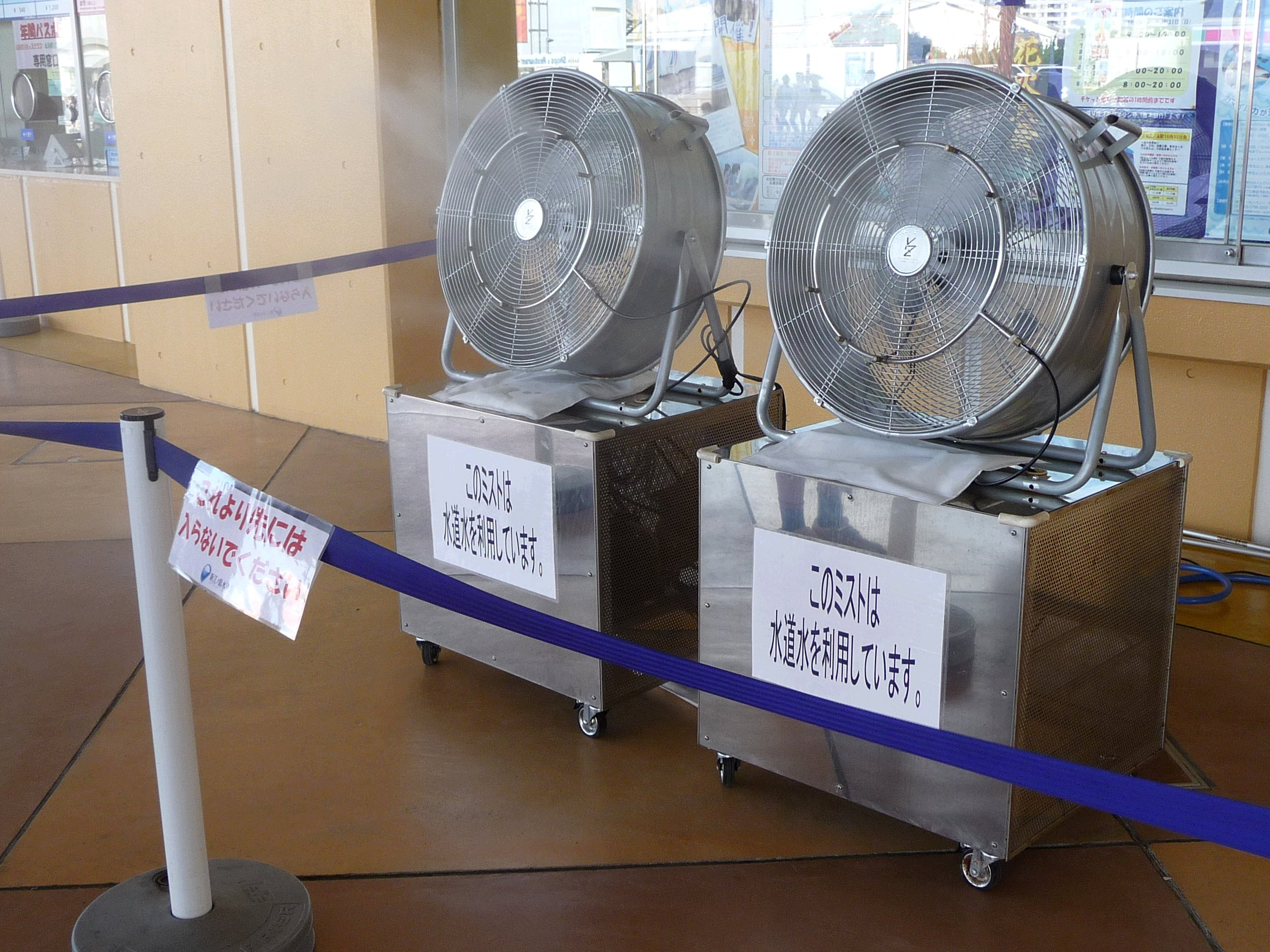 Simple (no feedback) mist spraying machine for air cooling by the heat of evaporation. (See Japanese article "ミスト散布" for detail in Wikipedia Japanese language edition.)